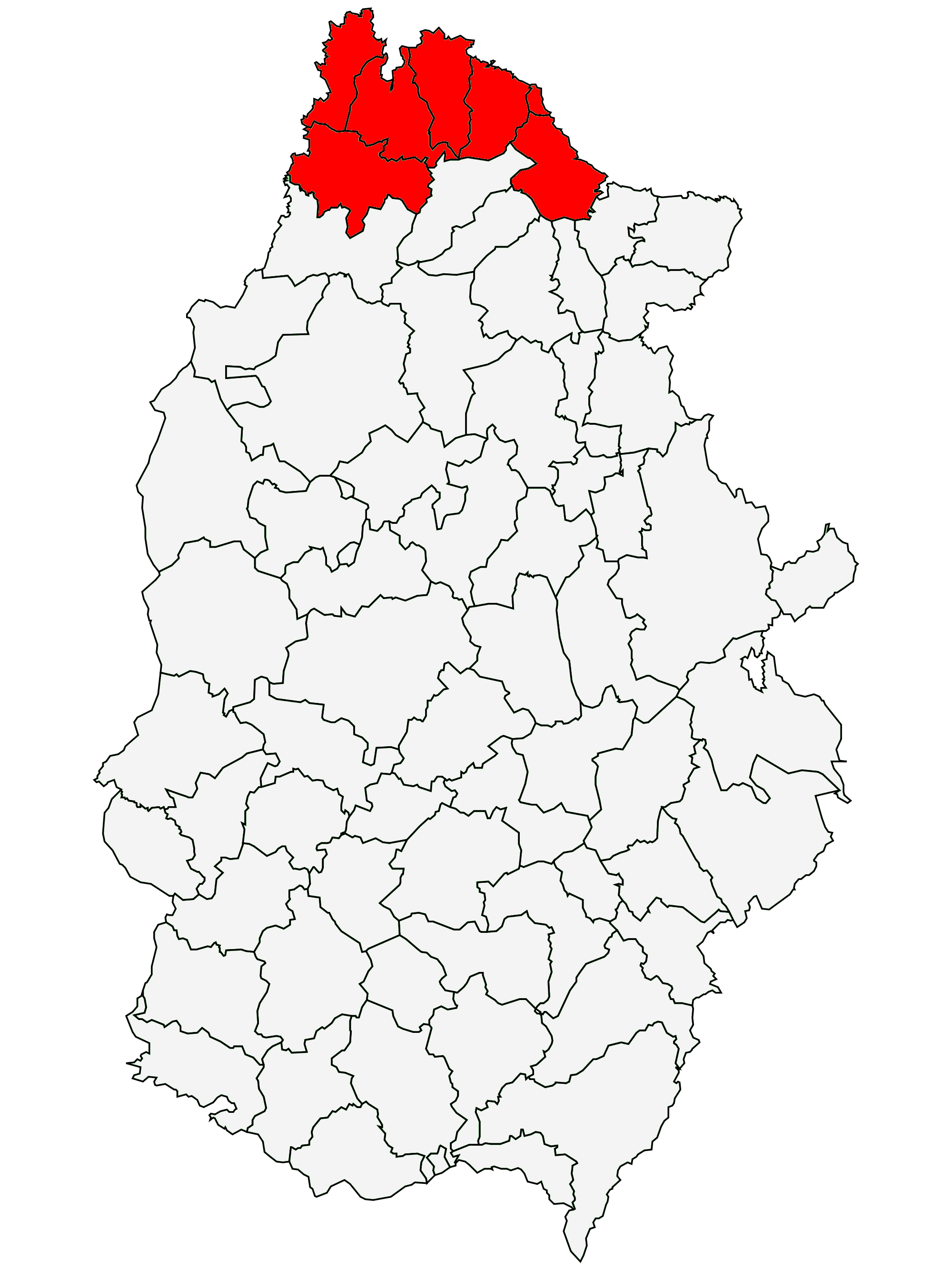 Viveiro